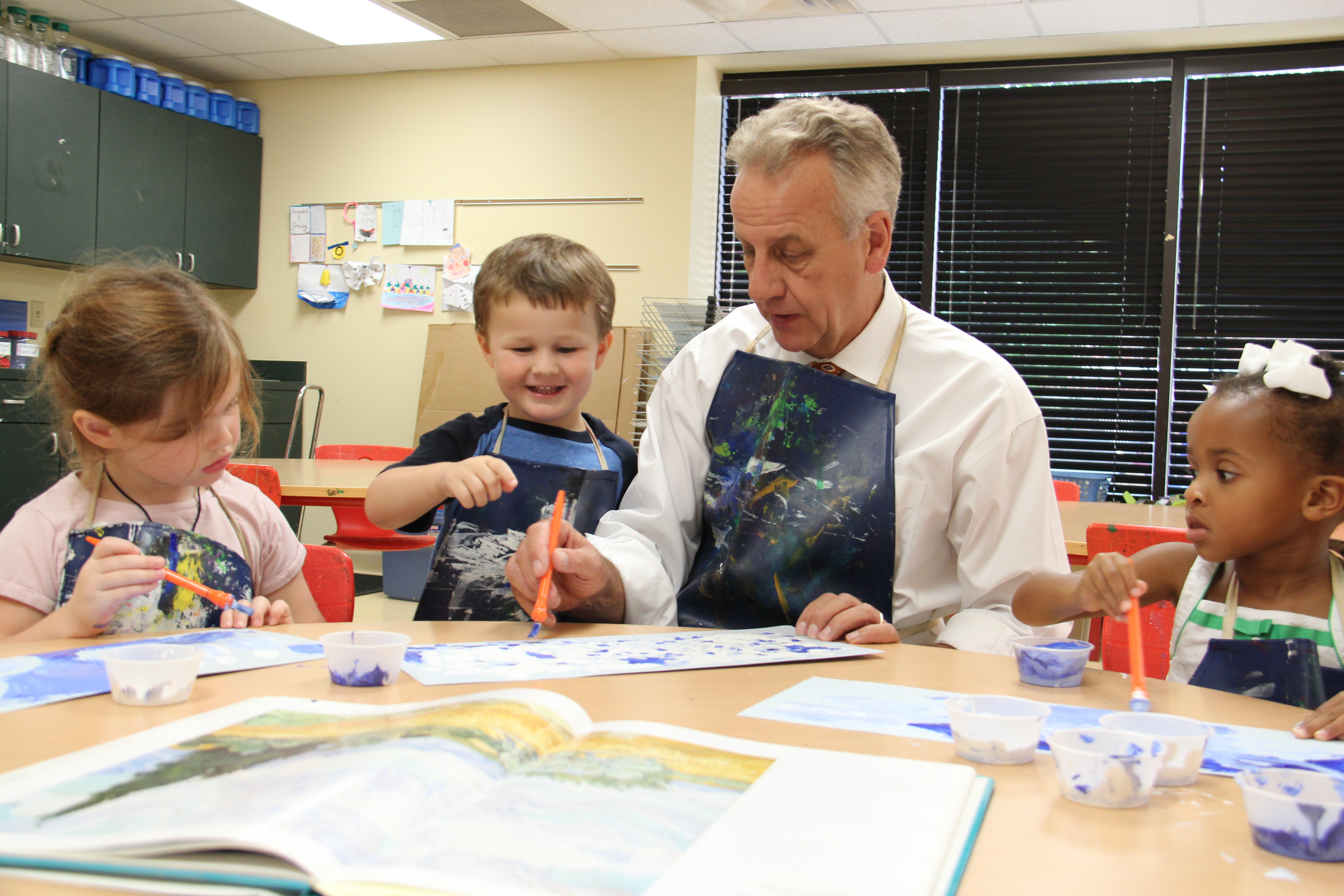 Stuart McCathie shows kindergarten students his painting.